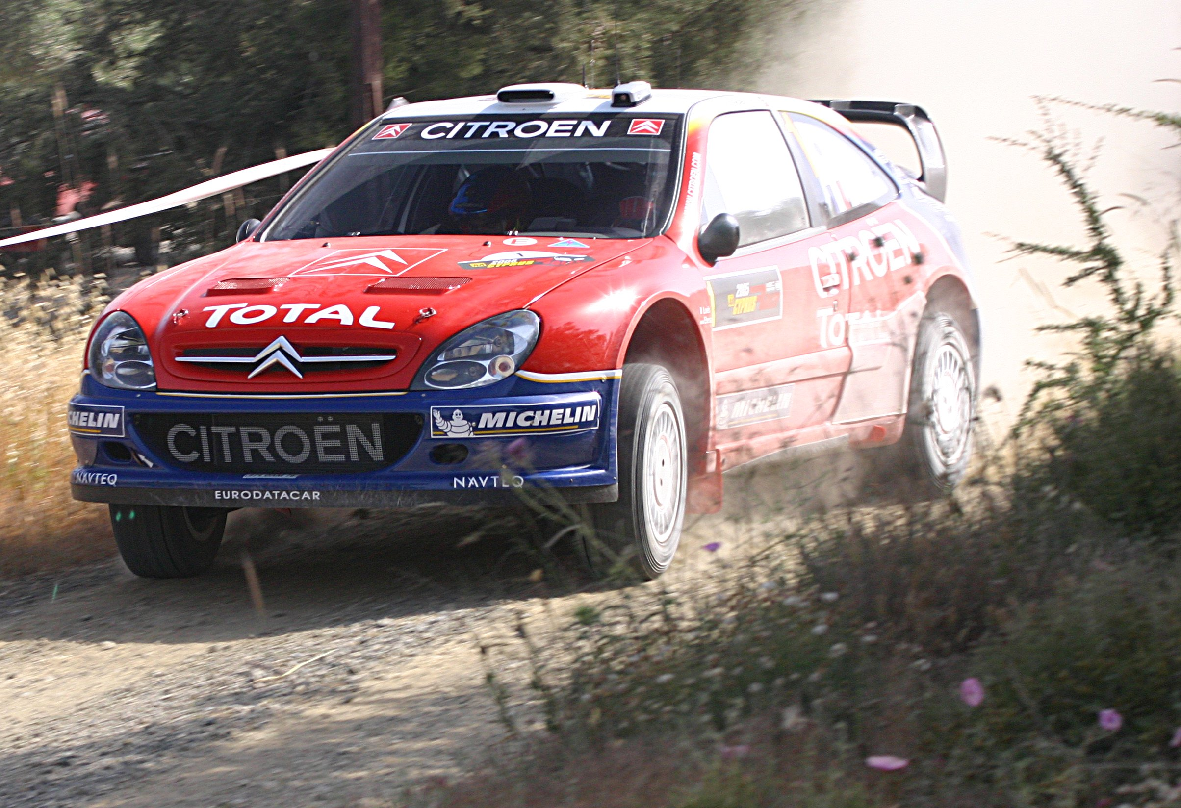 Sébastien Loeb driving his Citroën Xsara WRC at the 2005 Cyprus Rally.